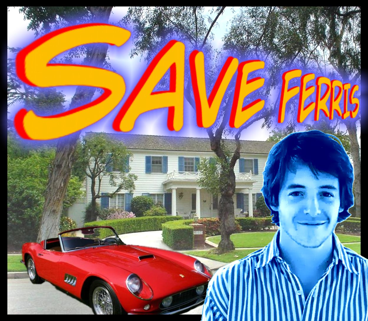 Photomontage to Ferris Bueller's Day Off